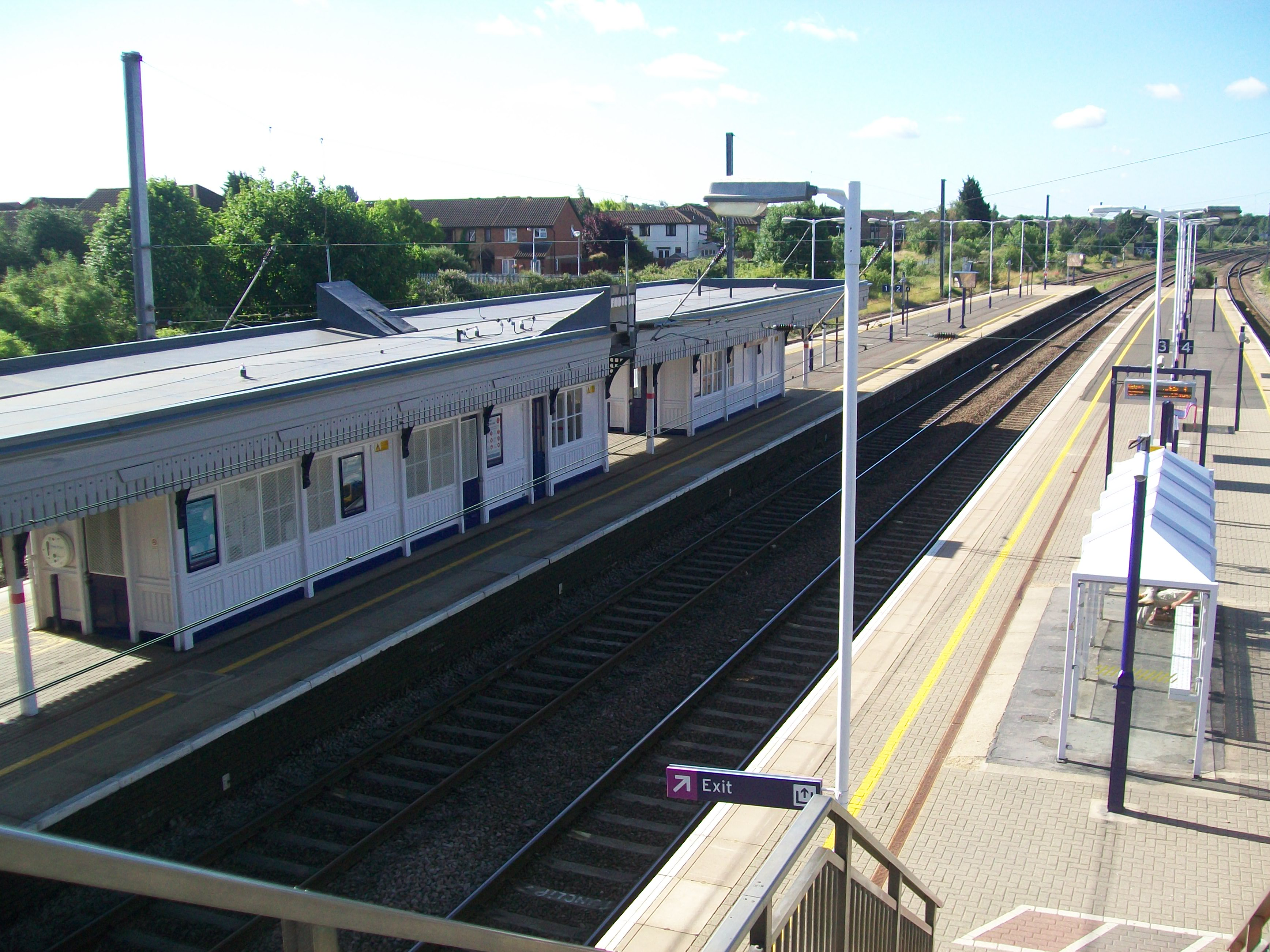 A view from the station bridge, looking North on Biggleswade Railway Station.